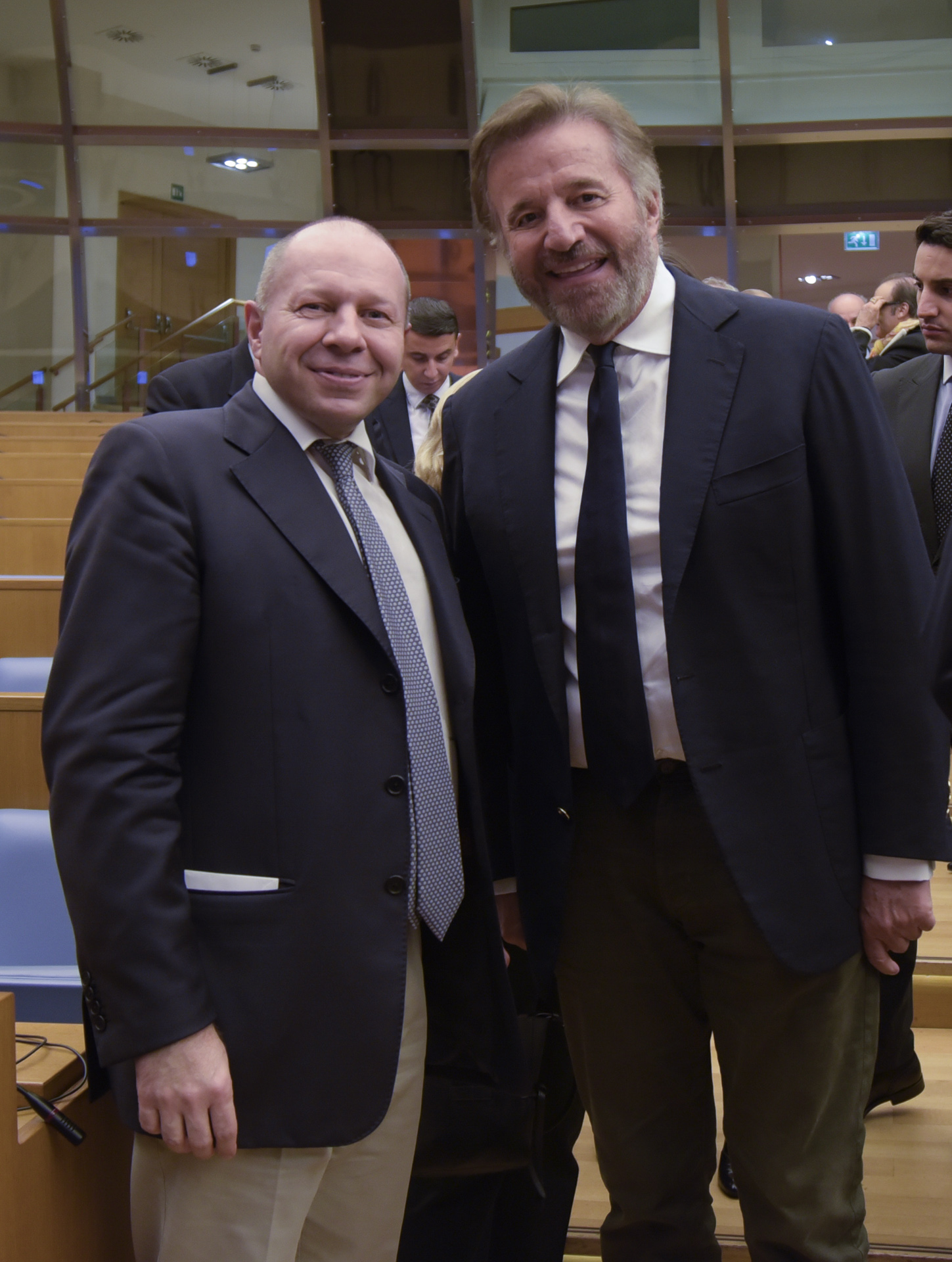 SECRETARY GENERAL ITALY-USA FOUNDATION CORRADO MARIA DACLON; ACTOR CHRISTIAN DE SICA